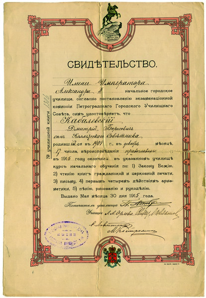 Dmitry Kabalevsky. Certificate of completion of primary school. 1904.